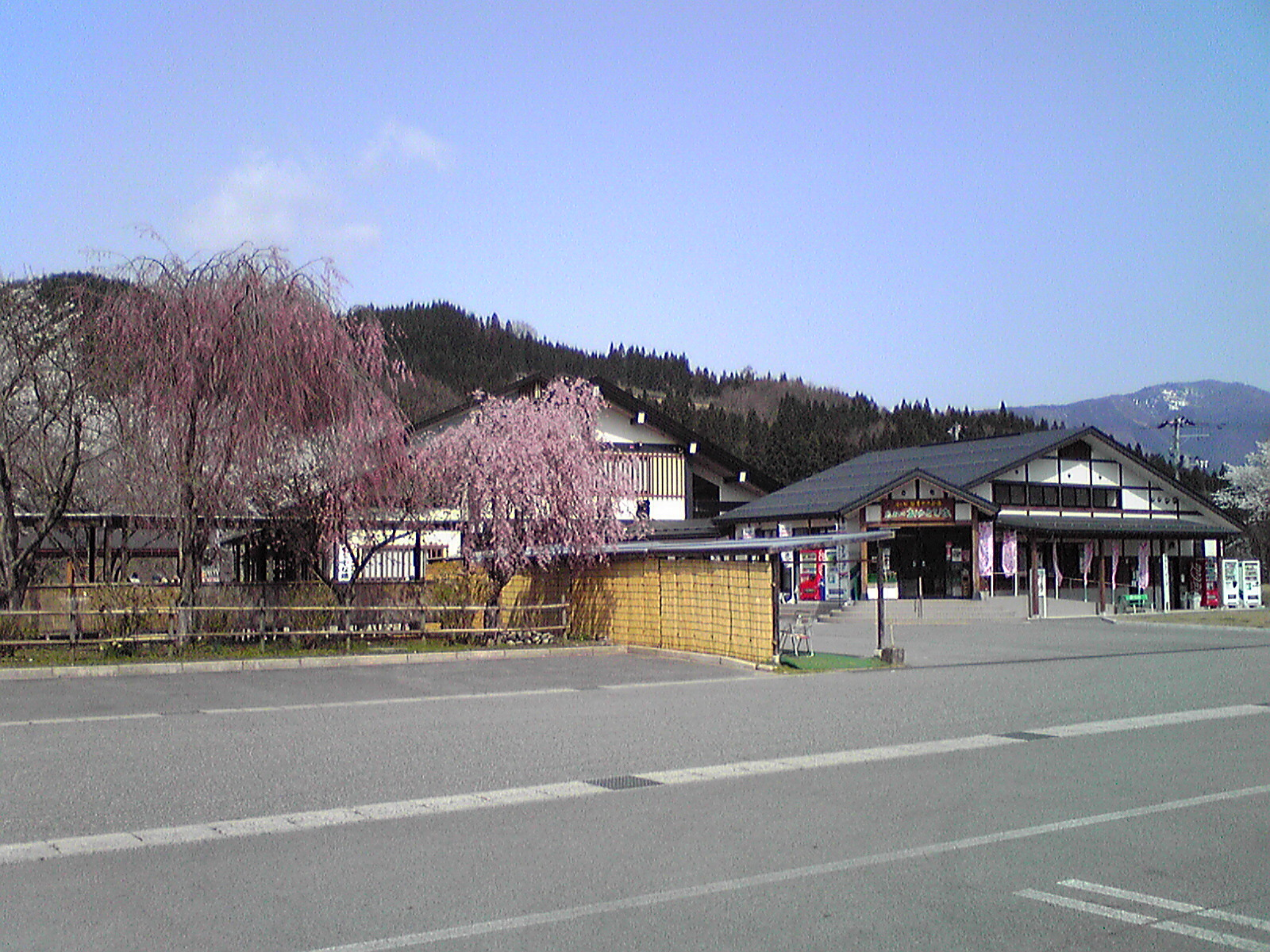 Michinoeki Shirataka Yanakoen in Shirataka Town, Yamagata Prefecture, Japan